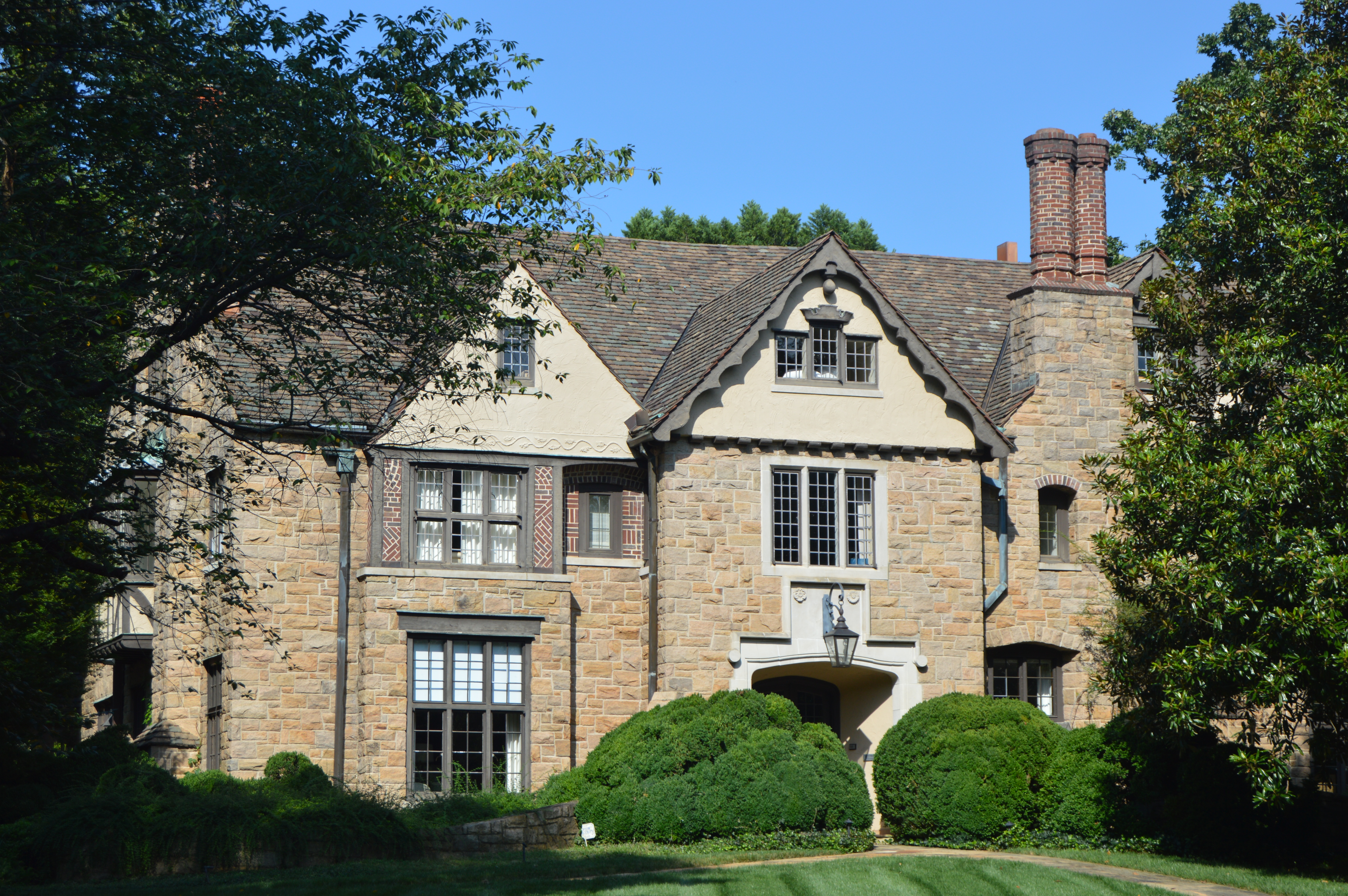 Front of the Hamilton C. Jones III House, located at 201 Cherokee Road in Charlotte, North Carolina, United States. Built in 1931, it is listed on the National Register of Historic Places.